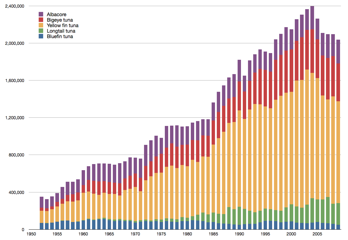 Fisheries recorded global capture in tonnes of Thunnus species from 1950. Data sourced for each species from the FAO fisheries Species Fact Sheets